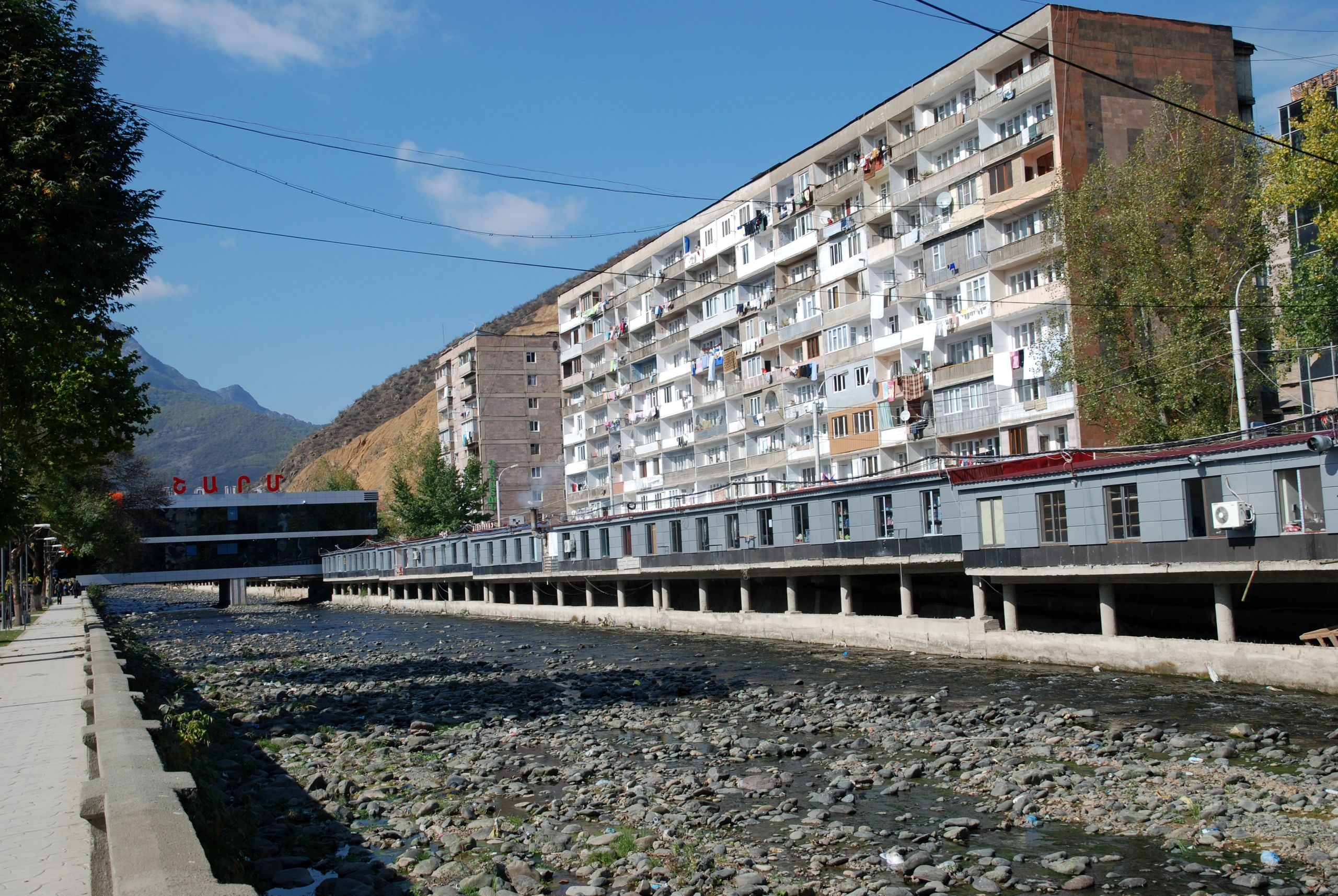 Kapan, voghji river